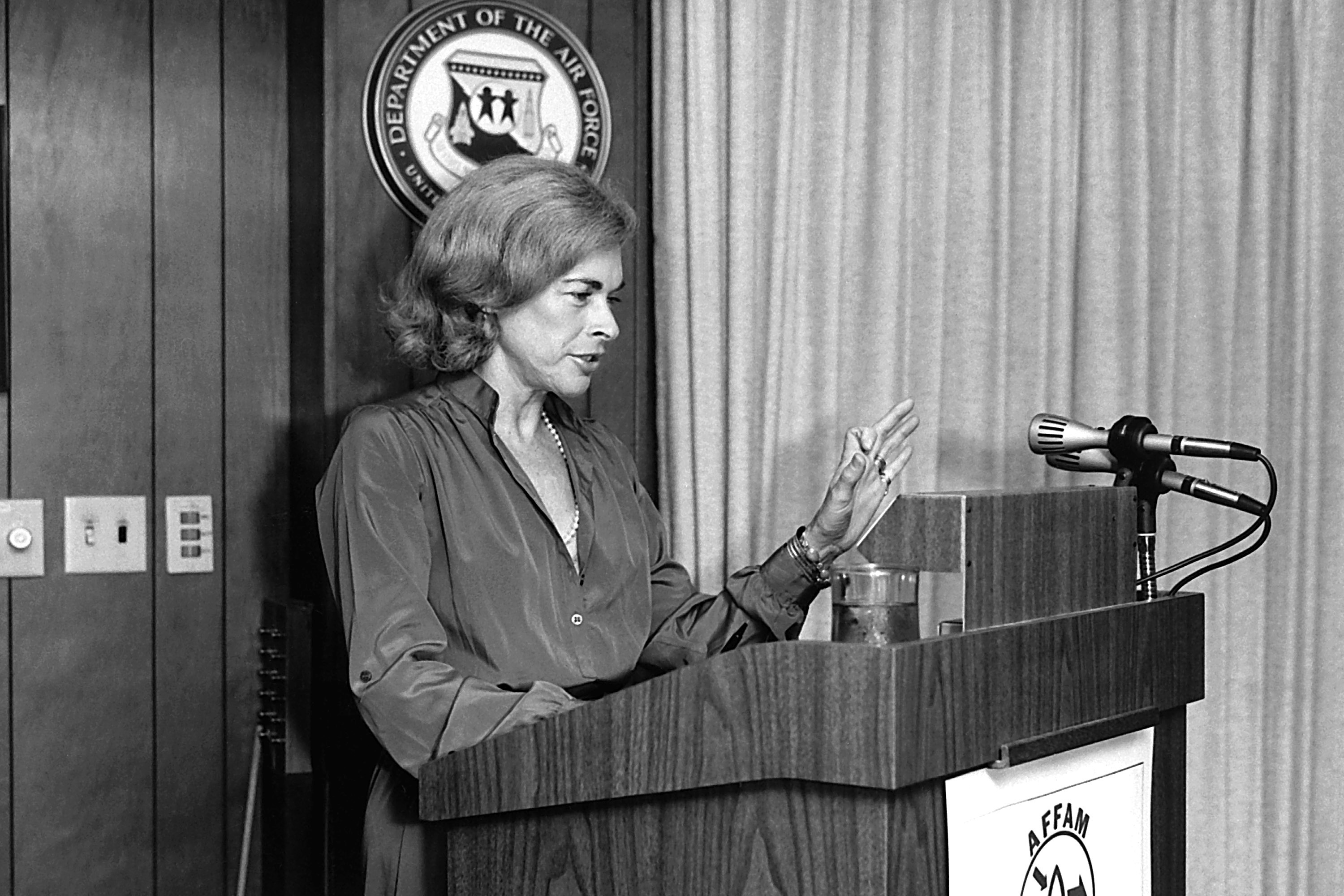 Former Under Secretary of the Air force Antonia Handler Chayes addresses a conference on family matters, 01/01/1980.